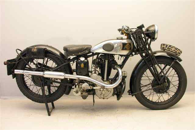 Levis Model A2 350 cc OHV motorcycle from 1932